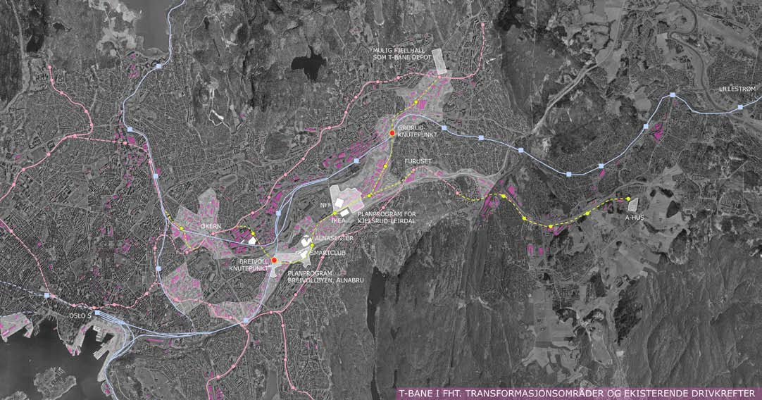 Possible extenstions of the subwaysystem in Groruddalen and Lørenskog with focus on transformationareas